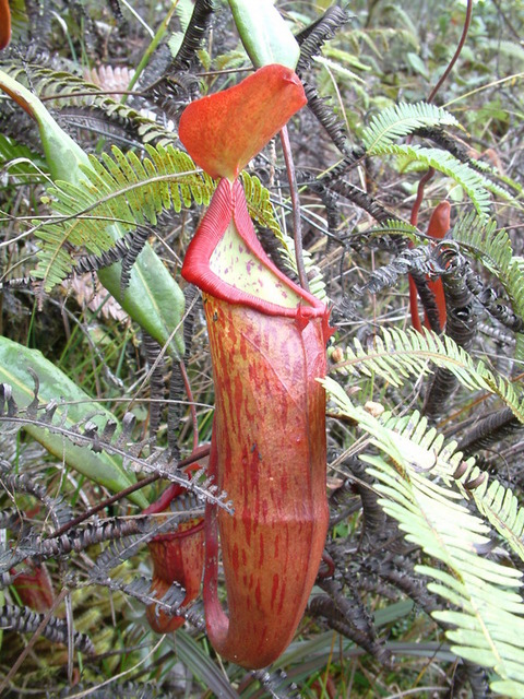 Nepenthes maxima near Puncak Jaya, Western New Guinea (~2600 m asl)